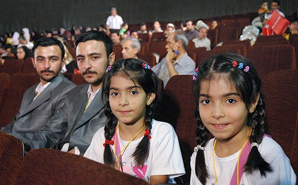 1st Iranian Azerbaijan Twins festival, Tabriz - 4 September 2007. Farsnews archive (in Persian)